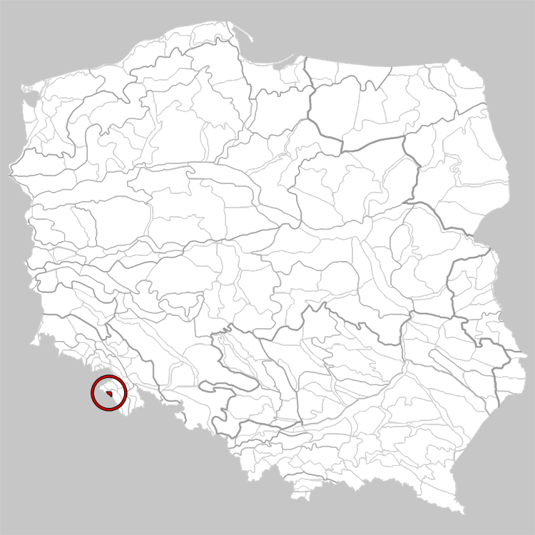 Physico-geographical regionalization of Poland, Mezoregion 332.52 Orlicke Mountains